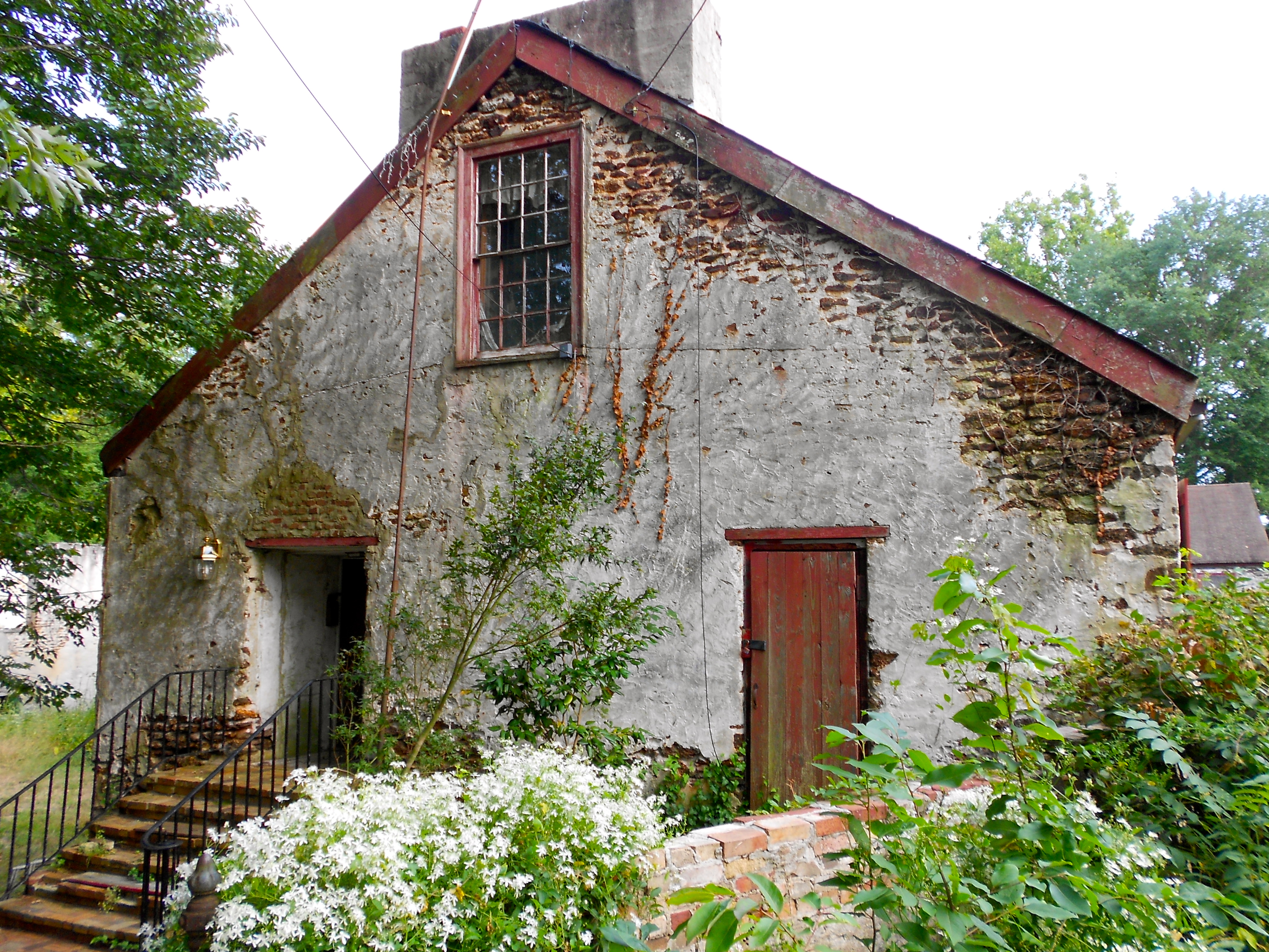 Pleasant Mills Listed on the NRHP on March 3, 1995. At Elwood-Pleasant Mills Rd., E side, Mullica Township, Atlantic County, New Jersey.